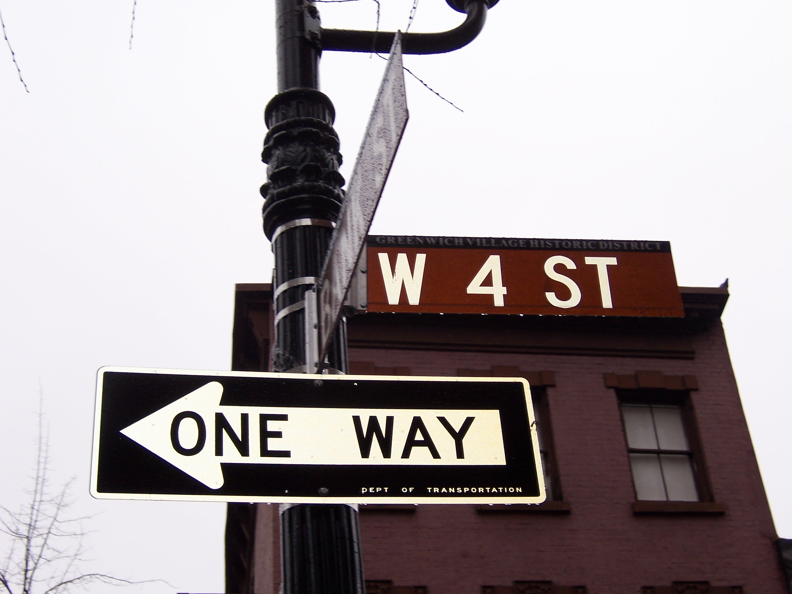 West 4th Street (Manhattan)